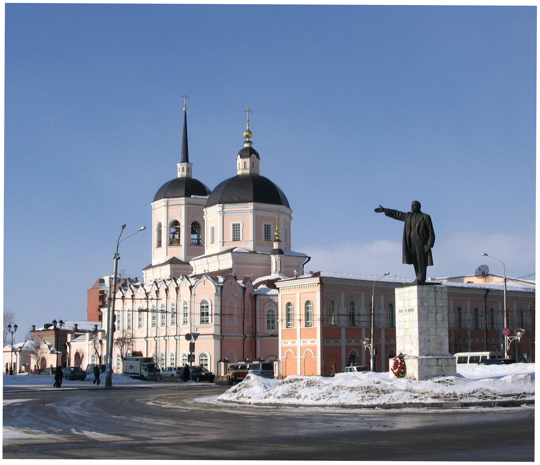 Lenin Square and Epiphany Cathedral in Tomsk, Russia. See also the view from another point